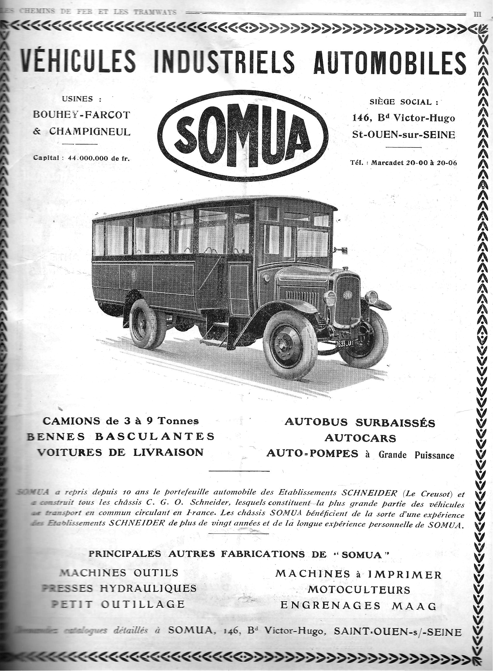 Somua vehicles builder advertisement in periodical.